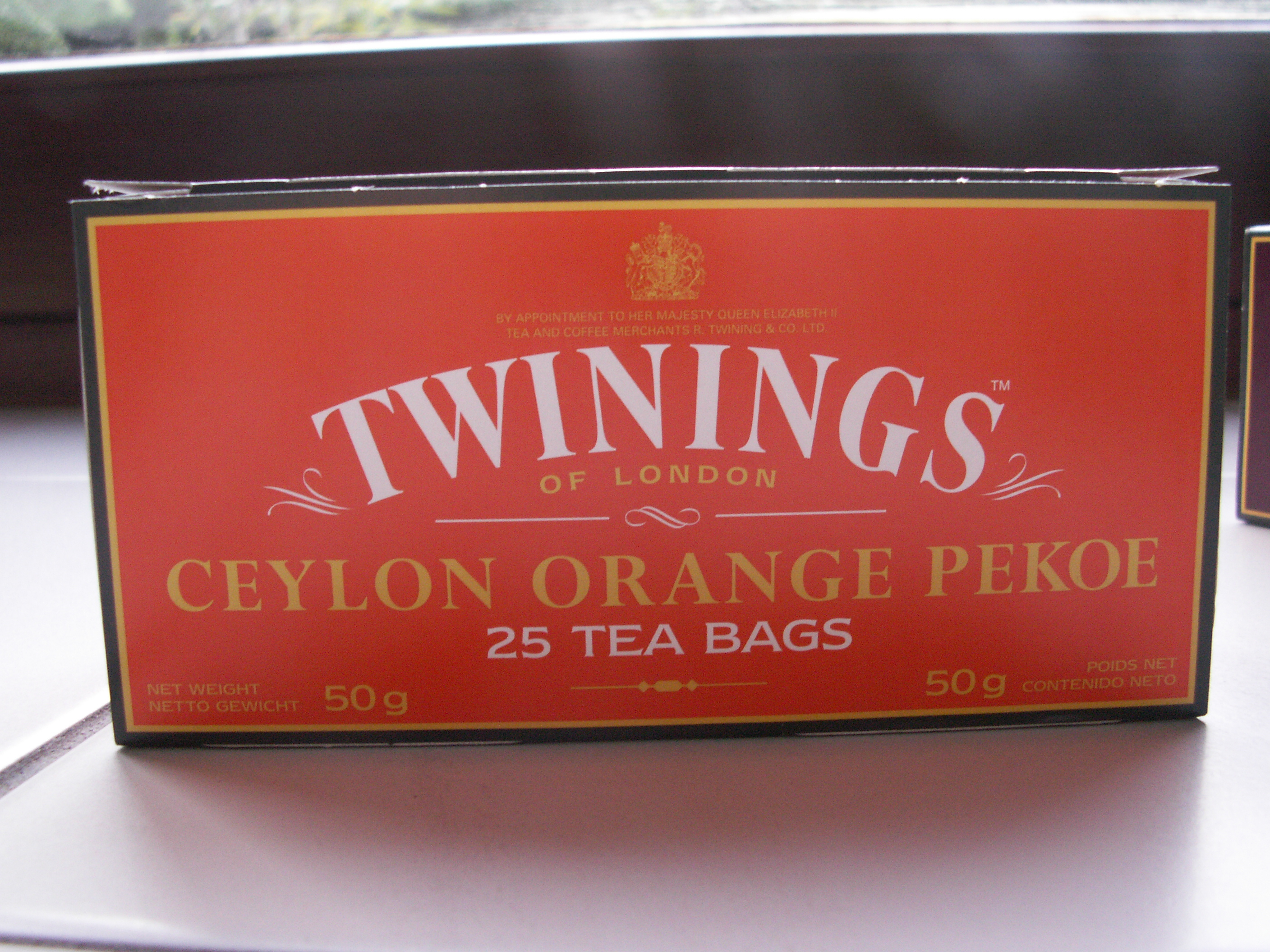 A commercial package of "Orange Pekoe" tea bags